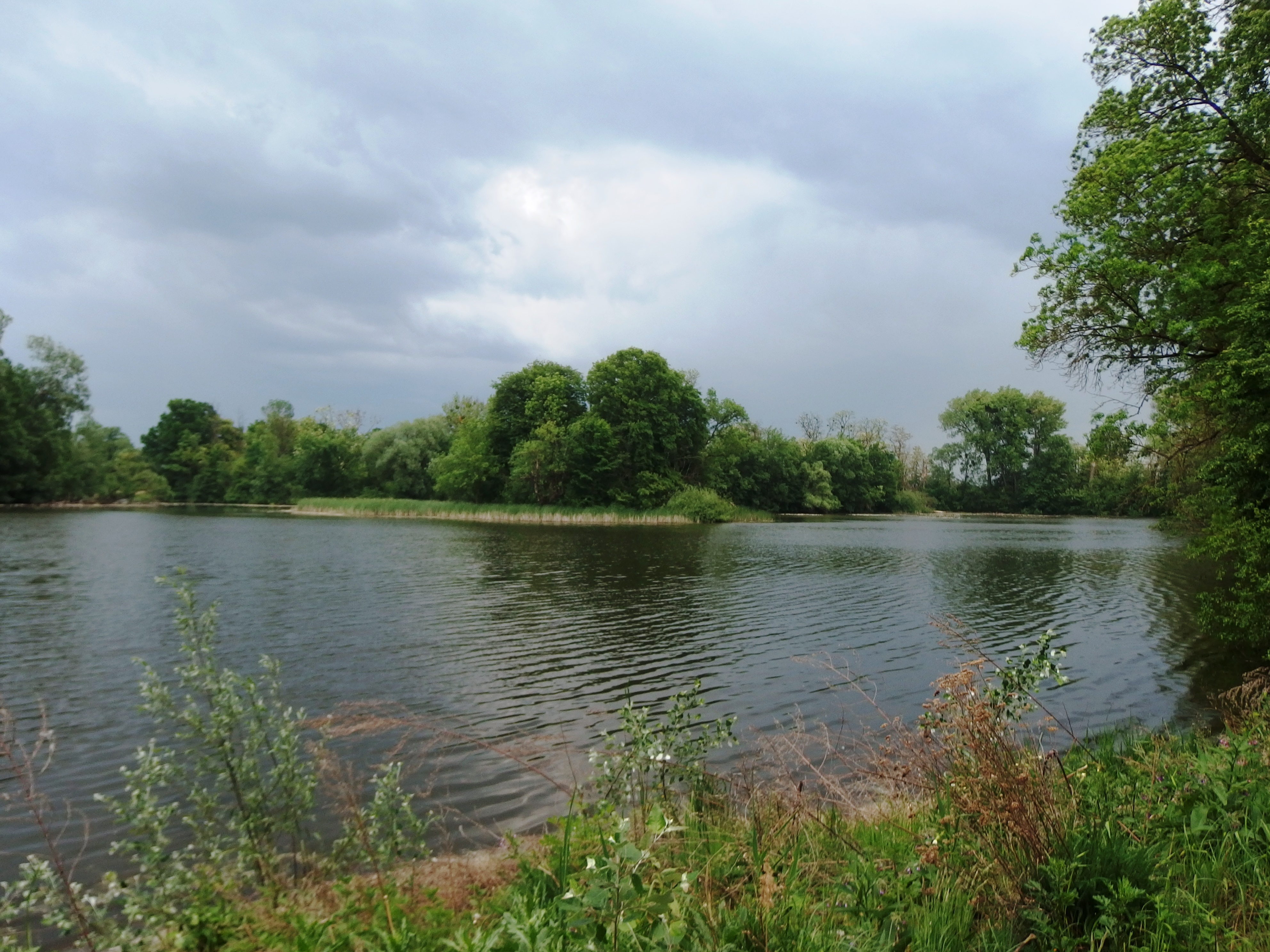 Milotice, Hodonín District, Czech Republic. Písečný rybník nature reserve.